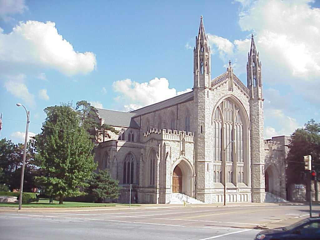 First United Methodist Church, 1115 S. Boulder, Tulsa, Oklahoma